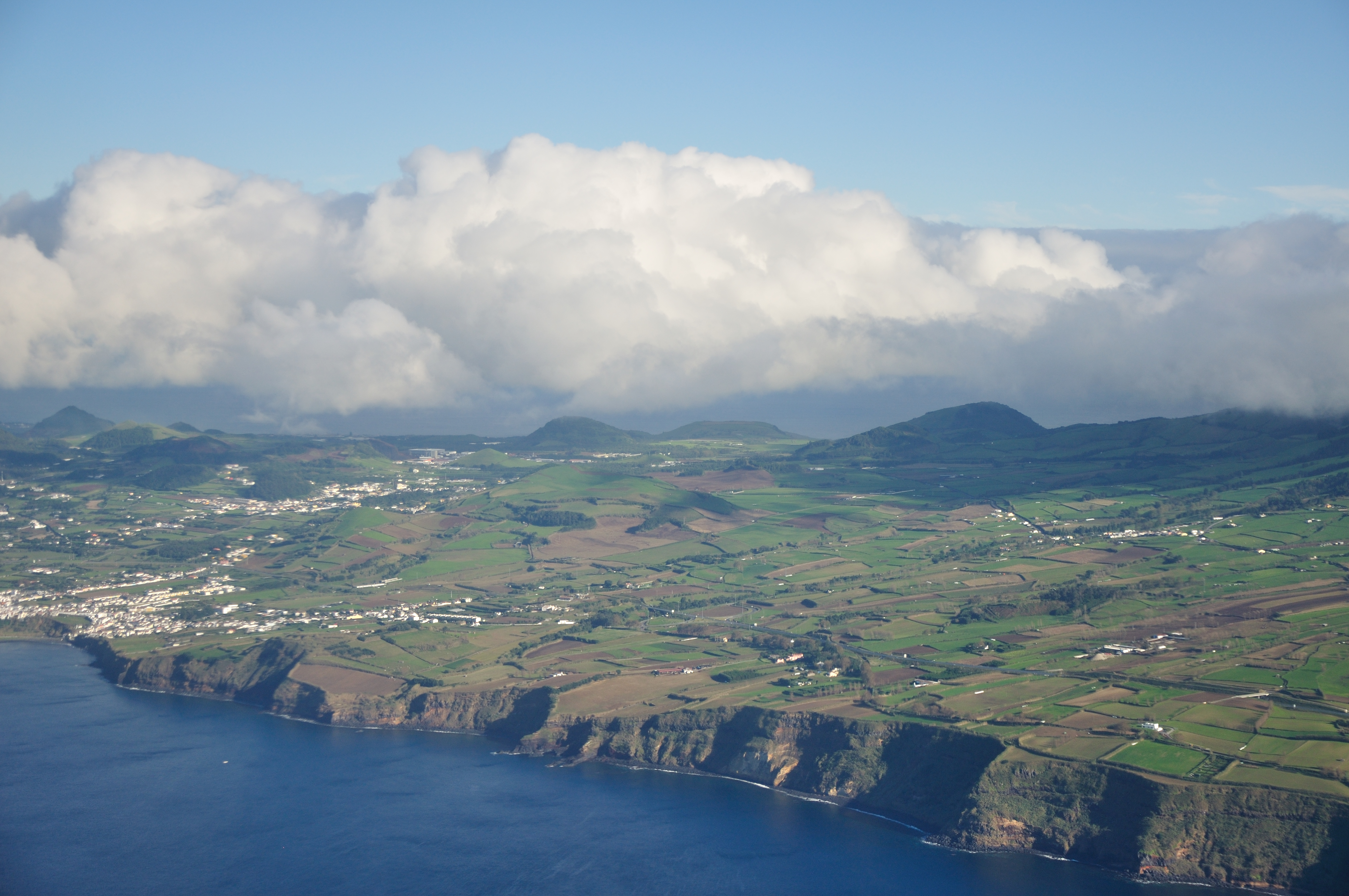 Portugal, aerial views of the Azores